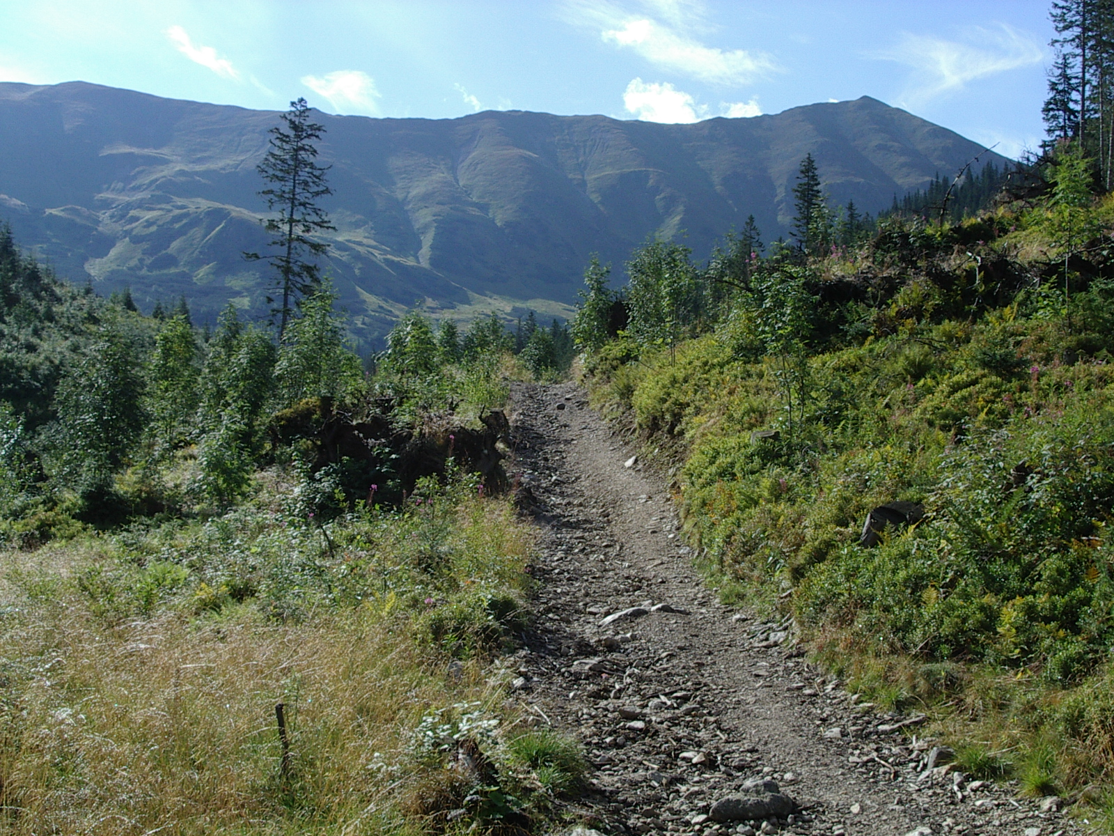 Red tourist route from Dolina Chochołowska to Trzydniowiański Wierch in Tatra Mountains.